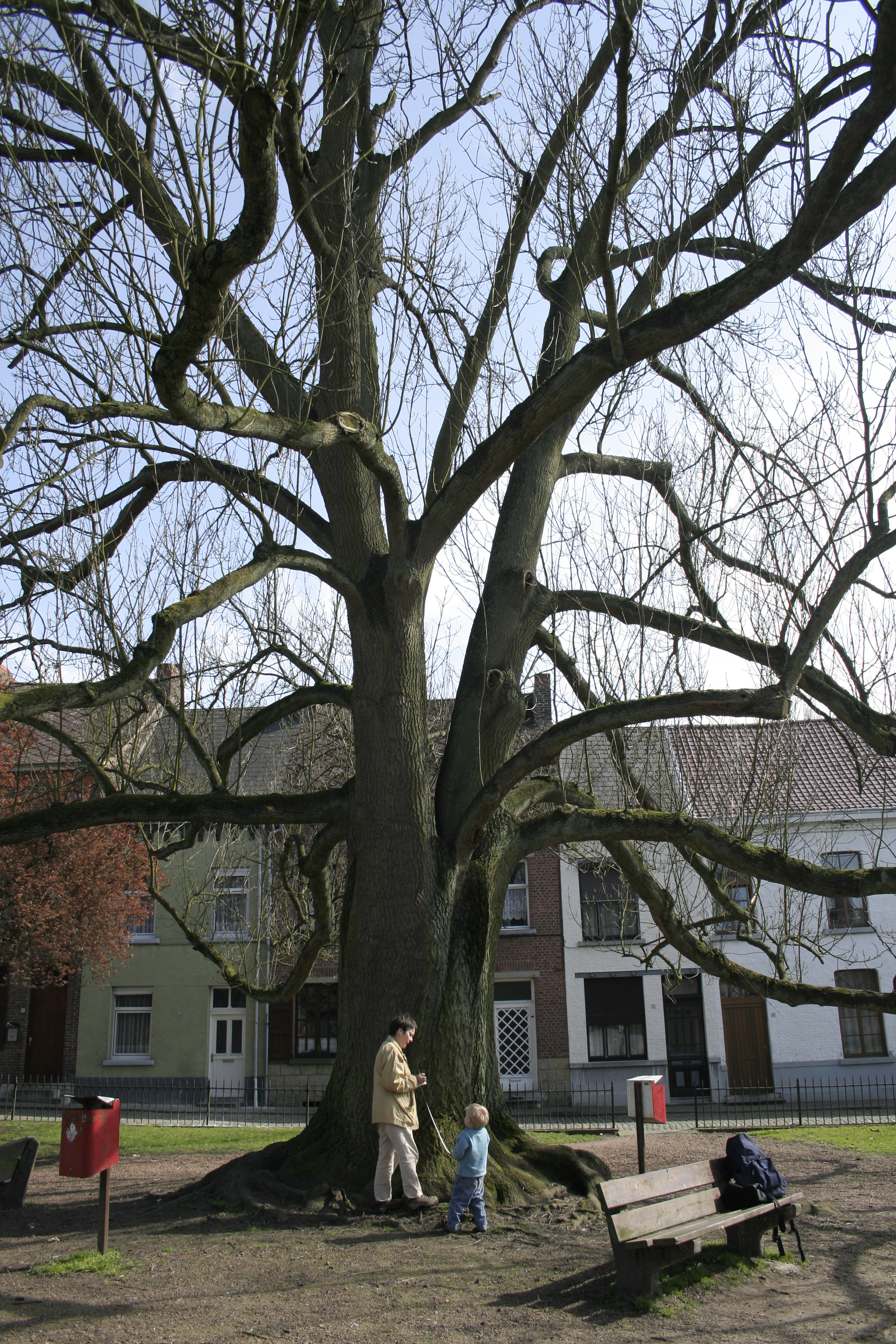 Ash.